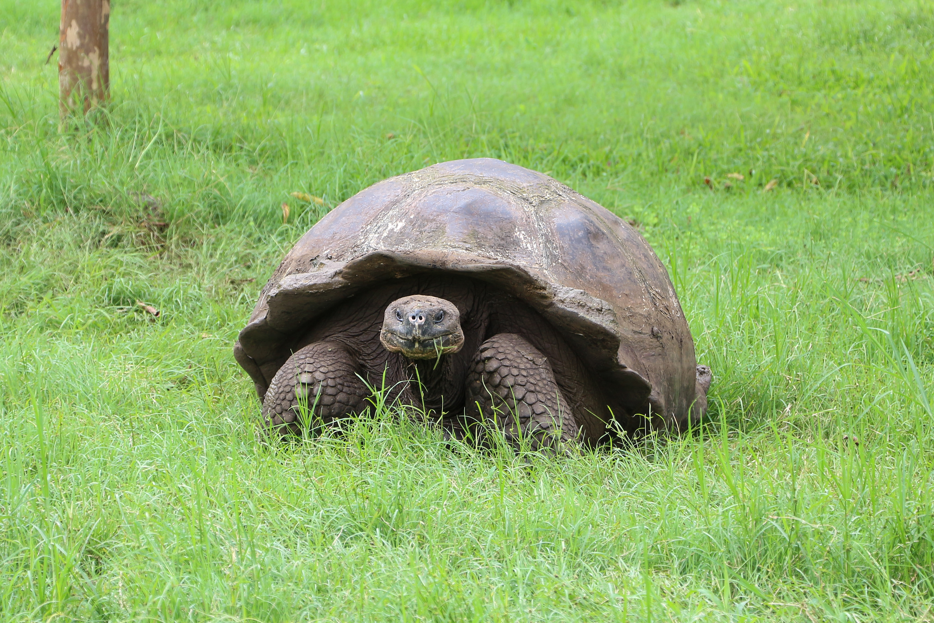 Santa Cruz giant tortoise (Chelonoidis porteri) in Santa Cruz Island, Galápagos National Park, Ecuador